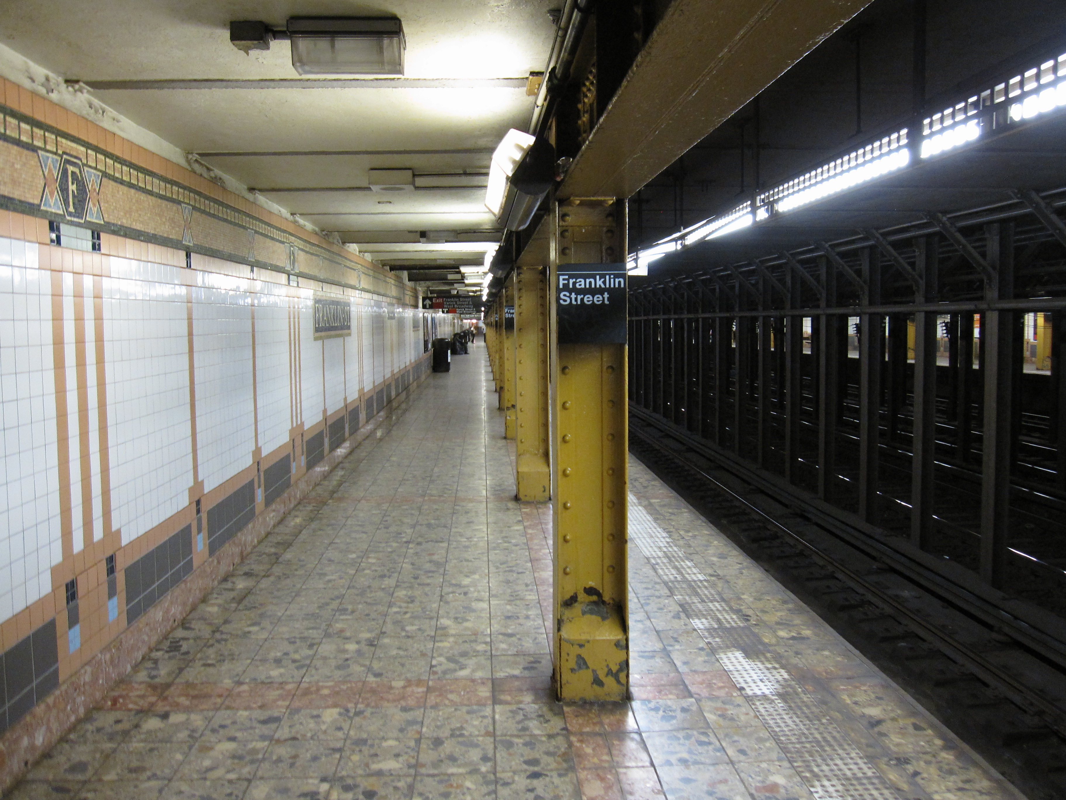 Category:Franklin Street (IRT Broadway – Seventh Avenue Line)